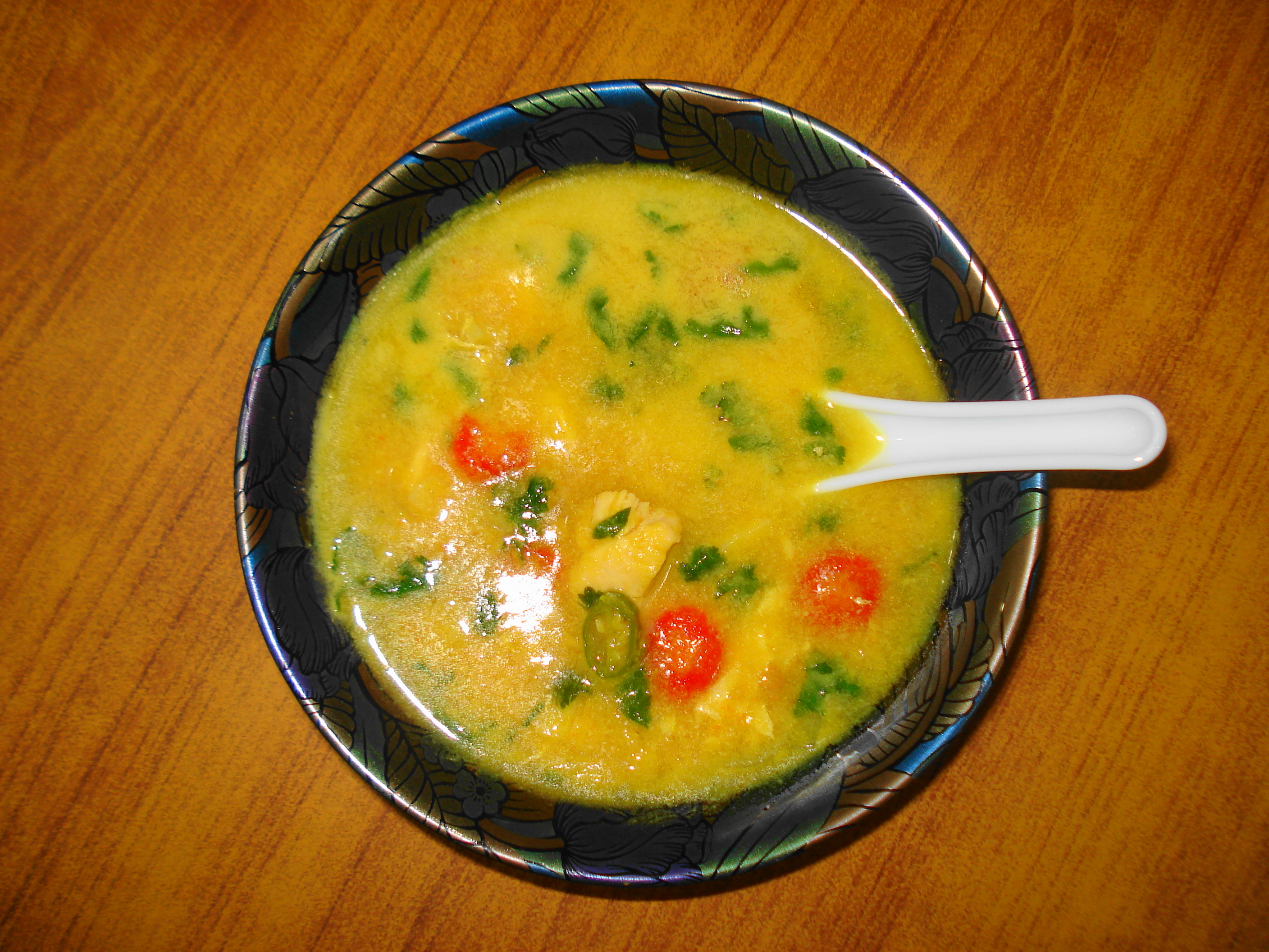 Mulligatawny Soup